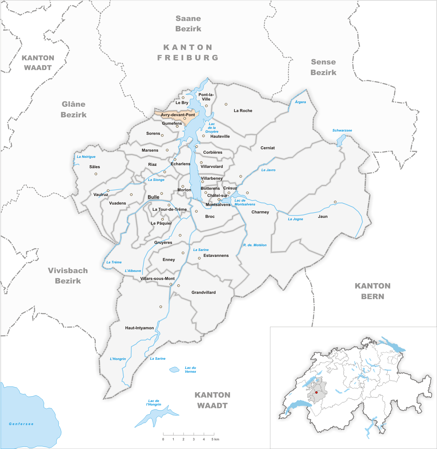 Municipality Avry-devant-Pont Artist: Tschubby